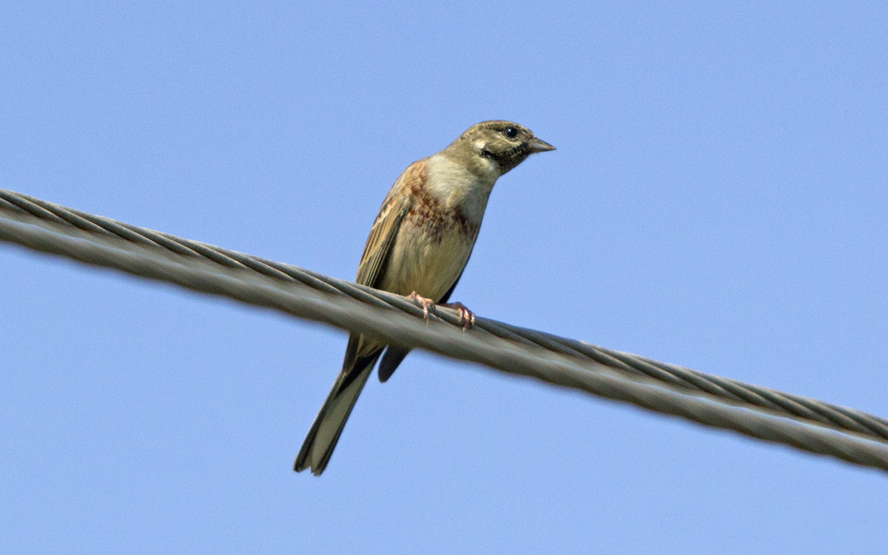 First photographic record for Porbandar district of Gujarat state of India.